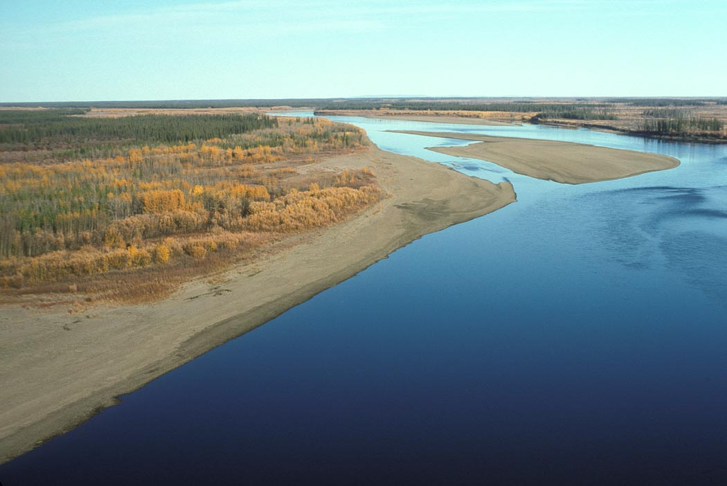 Porcupine River, Yukon Flats National Wildlife Refuge